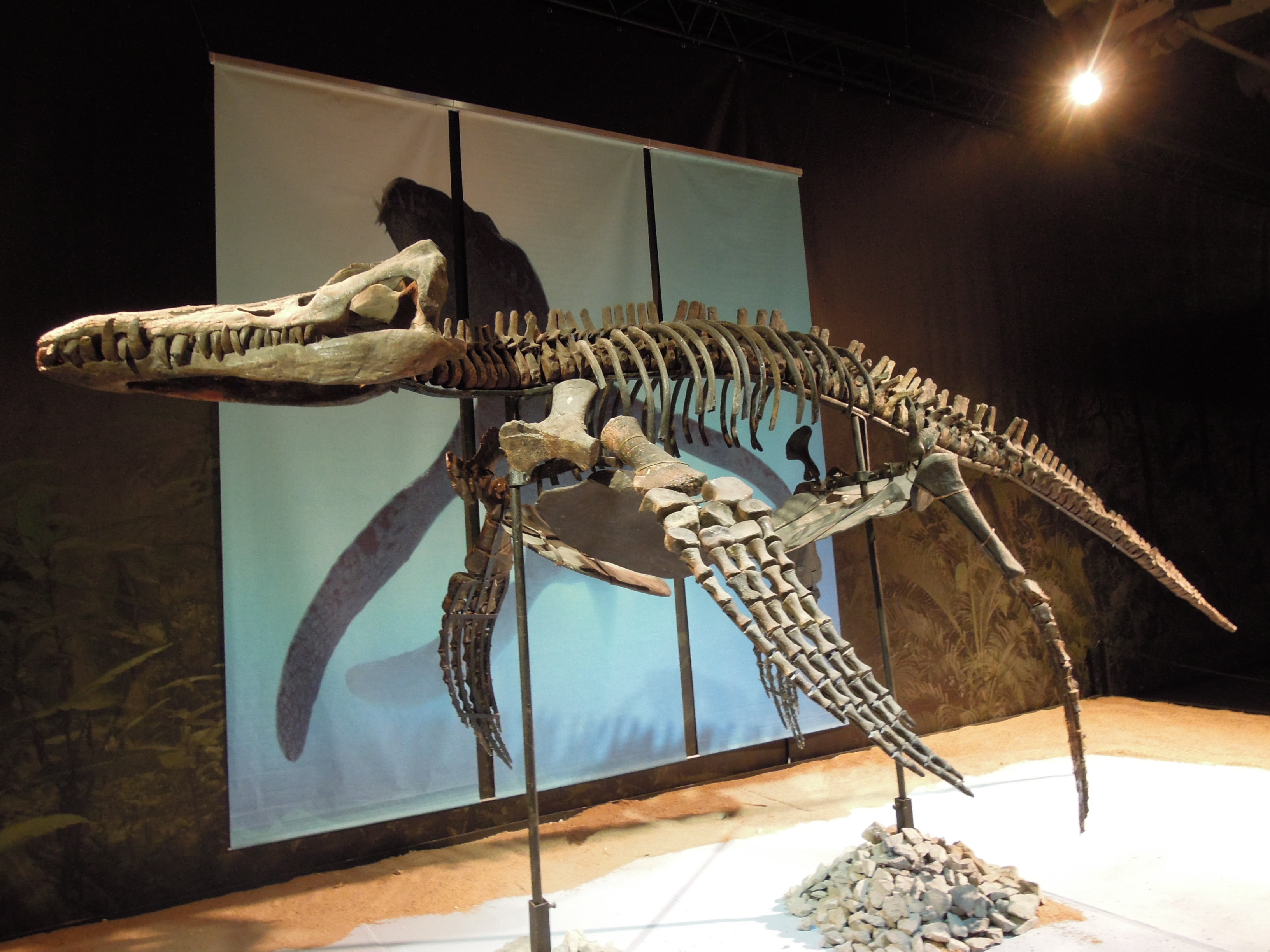 Liopleurodon rossicus, Dinosaurium exhibition, Prague, Czech Republic